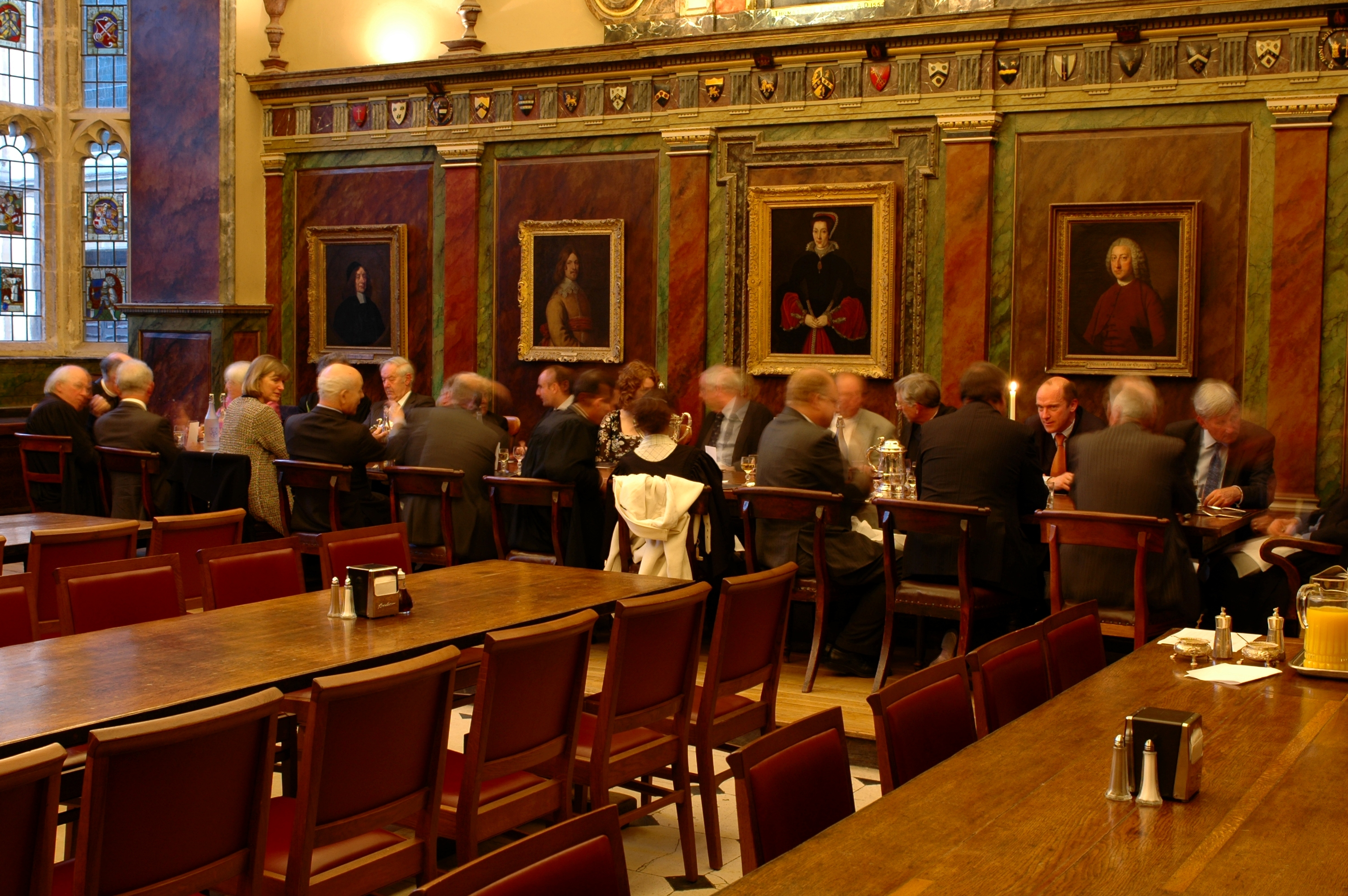 Dining hall at Trinity College, Oxford. Pictured are the Hight Table guests.